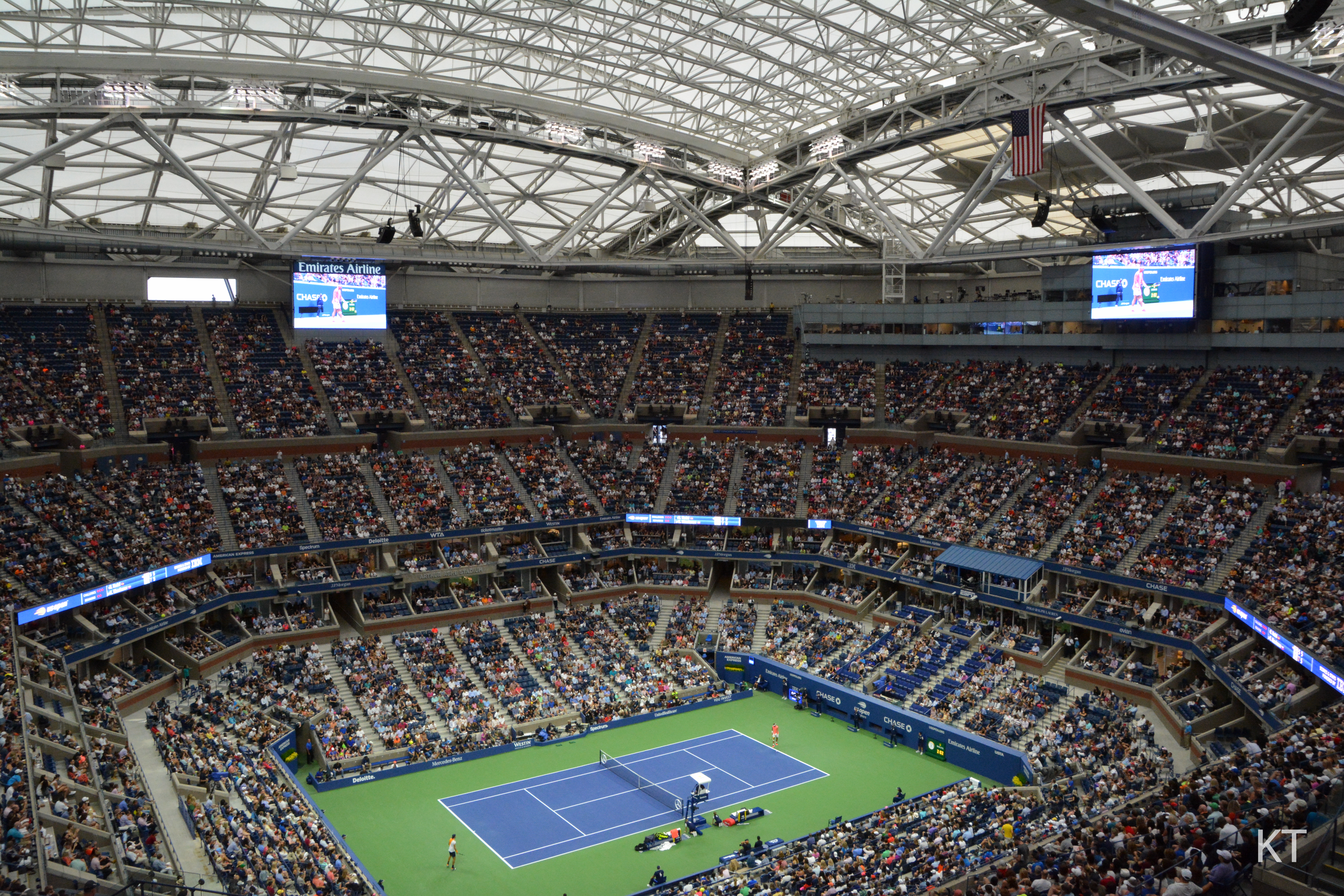 Rafael Nadal v Karen Khachanov, Day 5 of the US Open 2018.